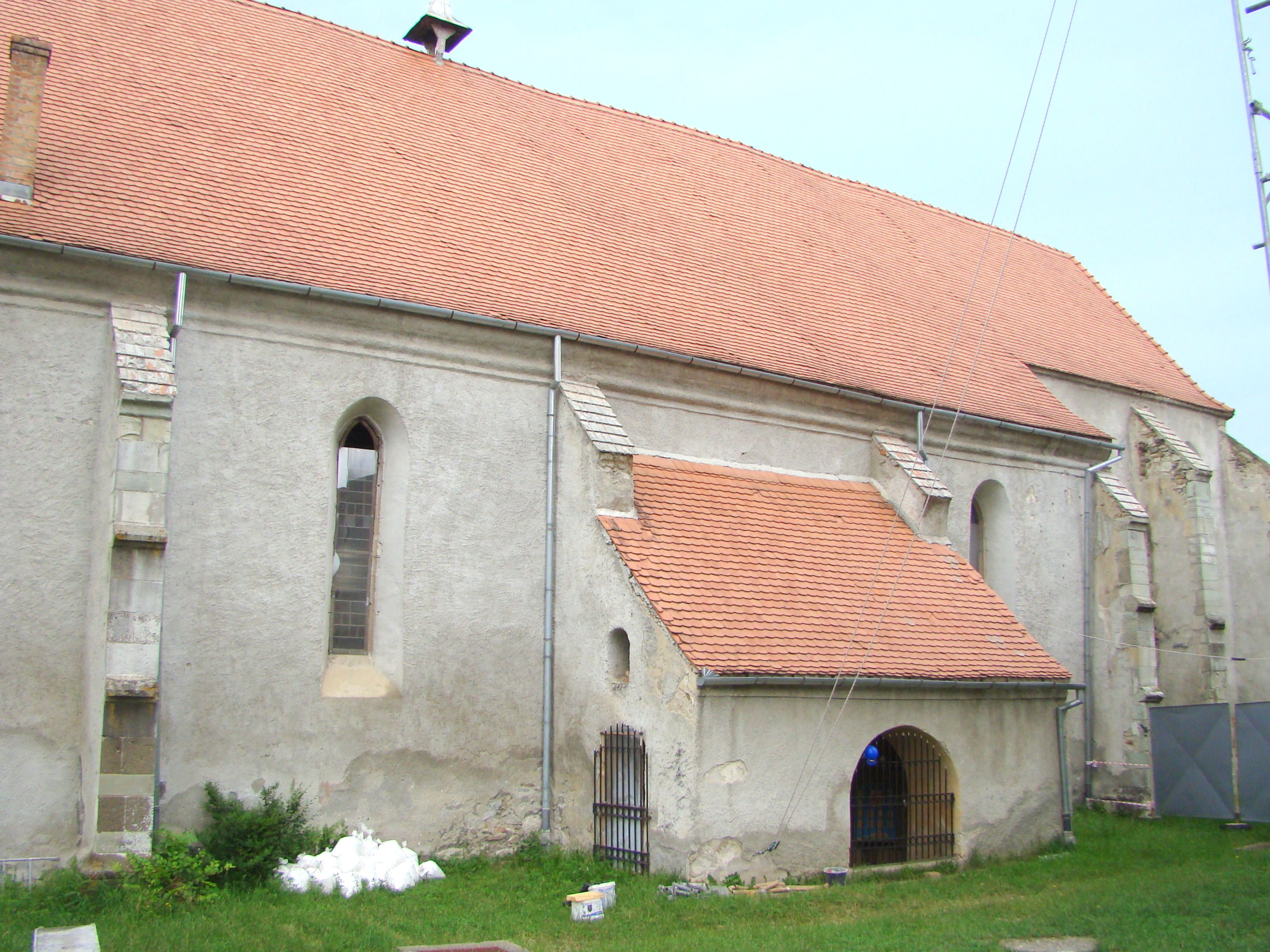 Lutheran church in Rupea, Braşov County, Romania